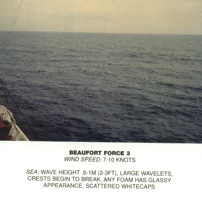 Beaufort scale 3 image